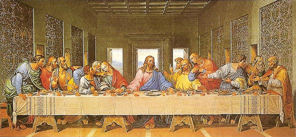 Last Supper